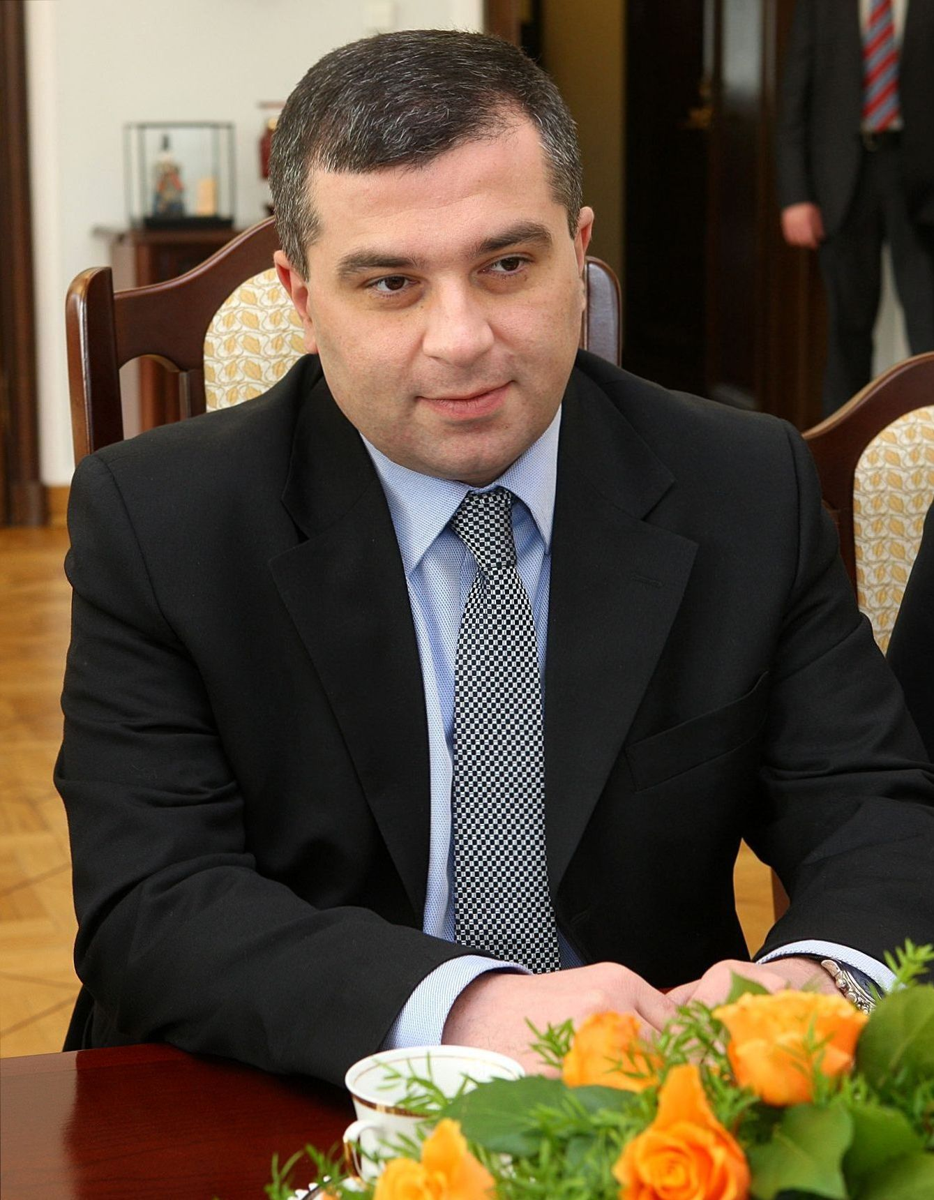 Speaker of the Parliament of Georgia David Bakradze in the Polish Senate